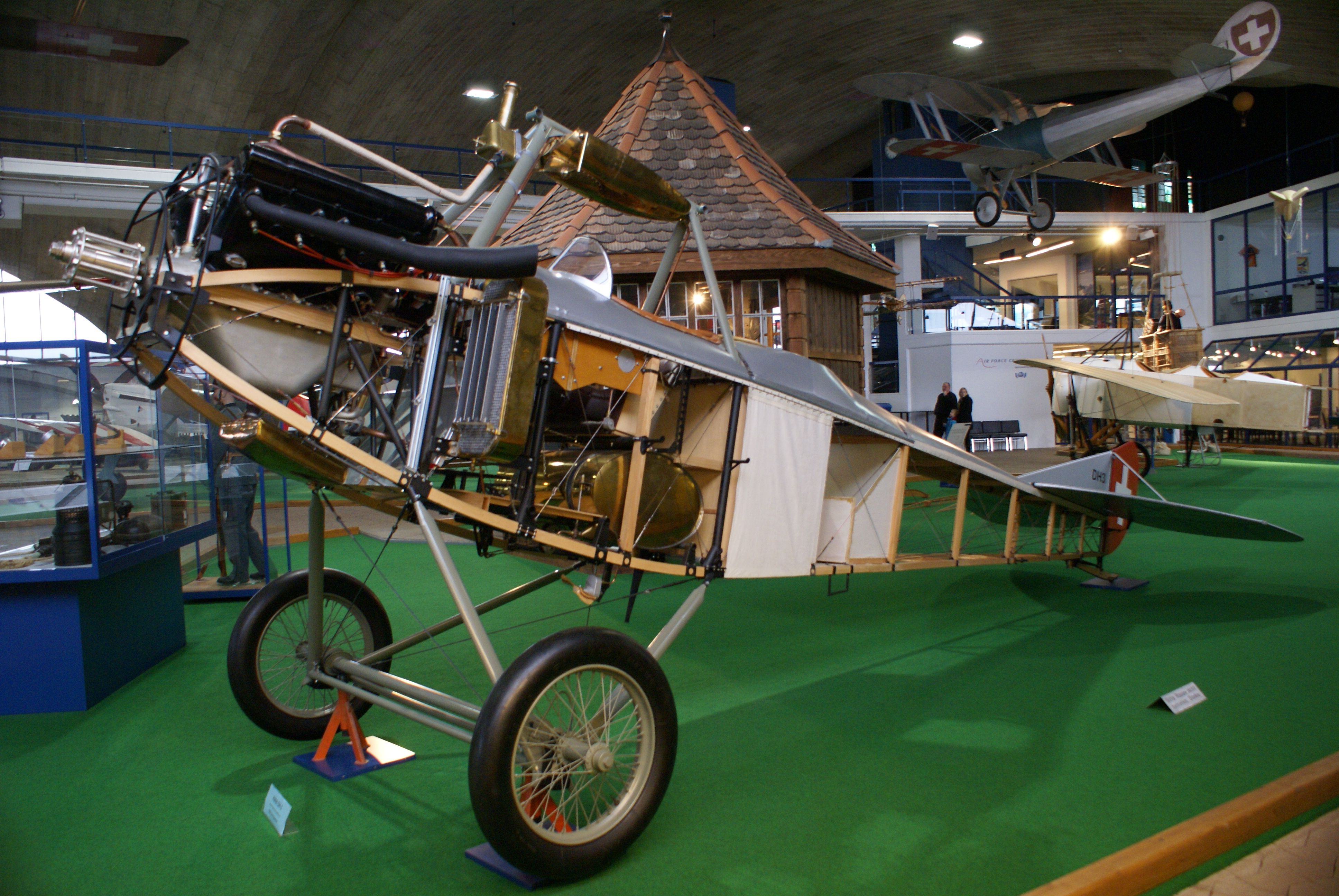 Cutaway replica of a Häfeli DH-3 reconnaissance aircraft of the Swiss Army Air Corps.